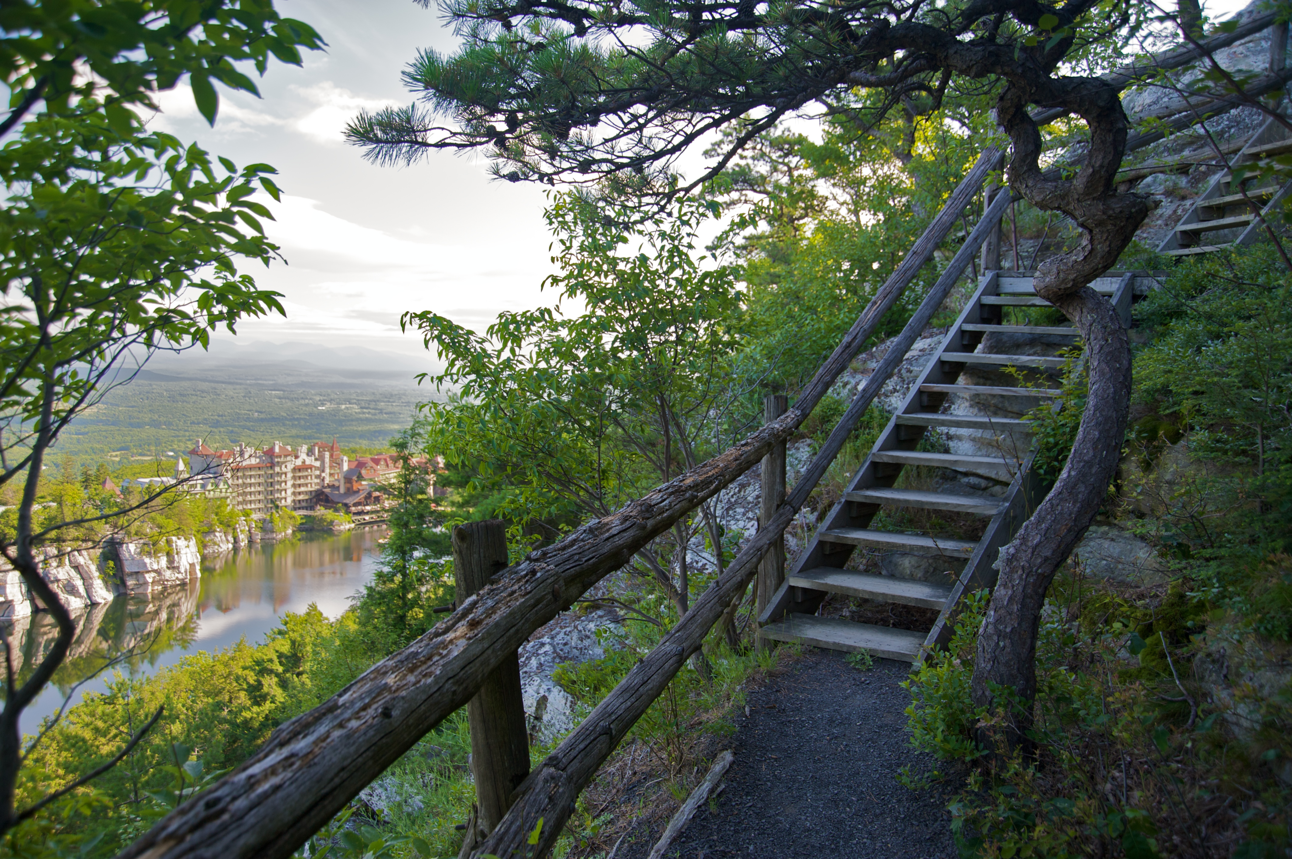 A branch of one of many hiking trails leading up to a gazebo seen against guest rooms in the far background across Lake Mohonk at Mohonk Mountain House